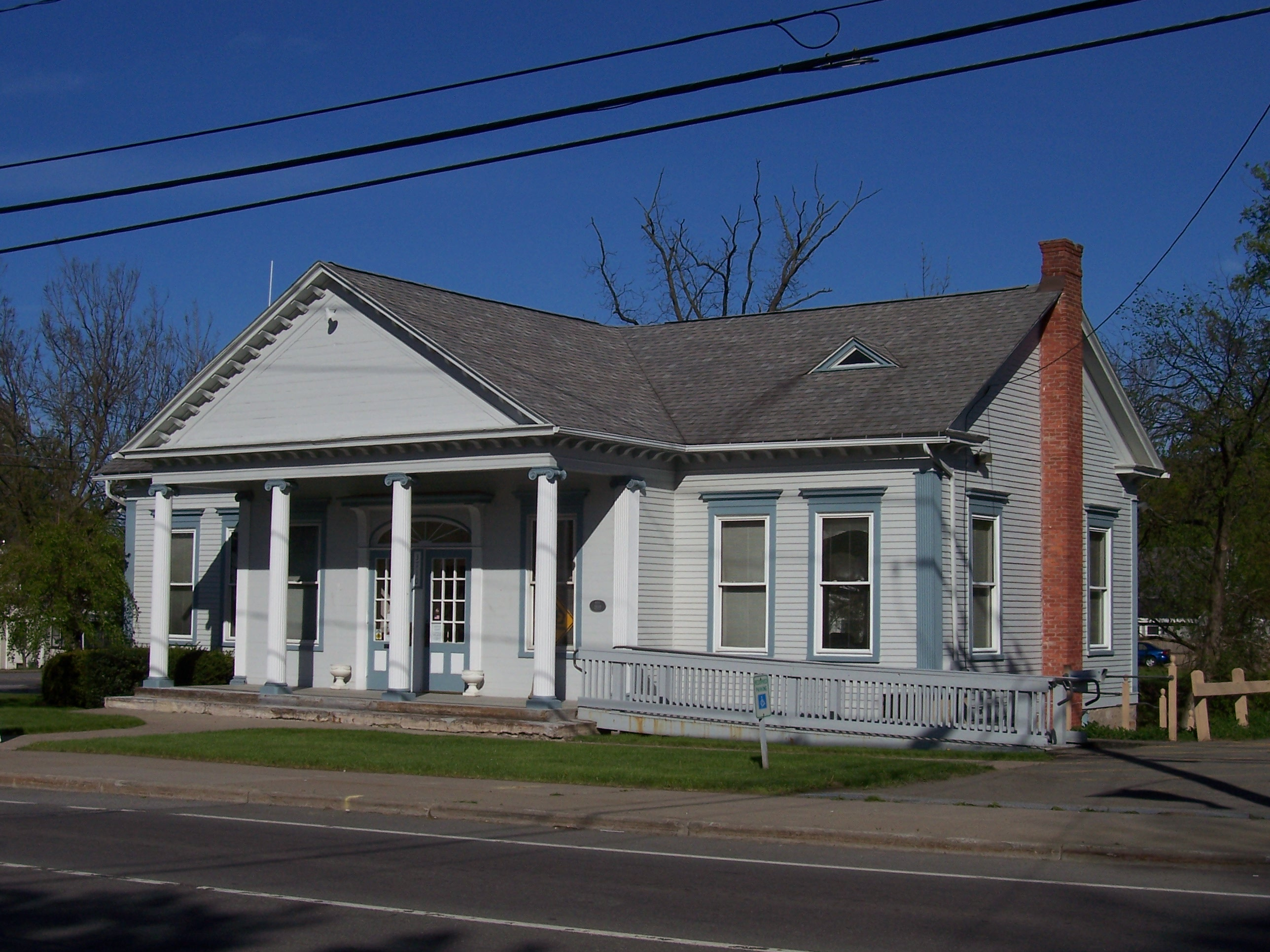 Clarkson, New York Town Hall